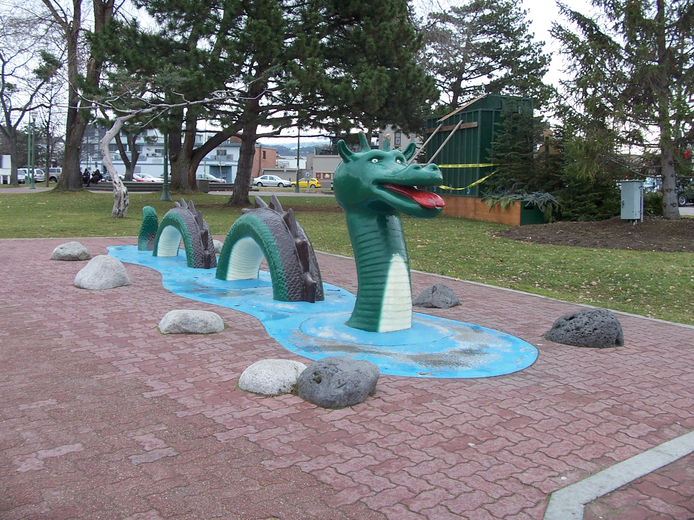 A Statue of an Ogopogo in a Kelowna park.